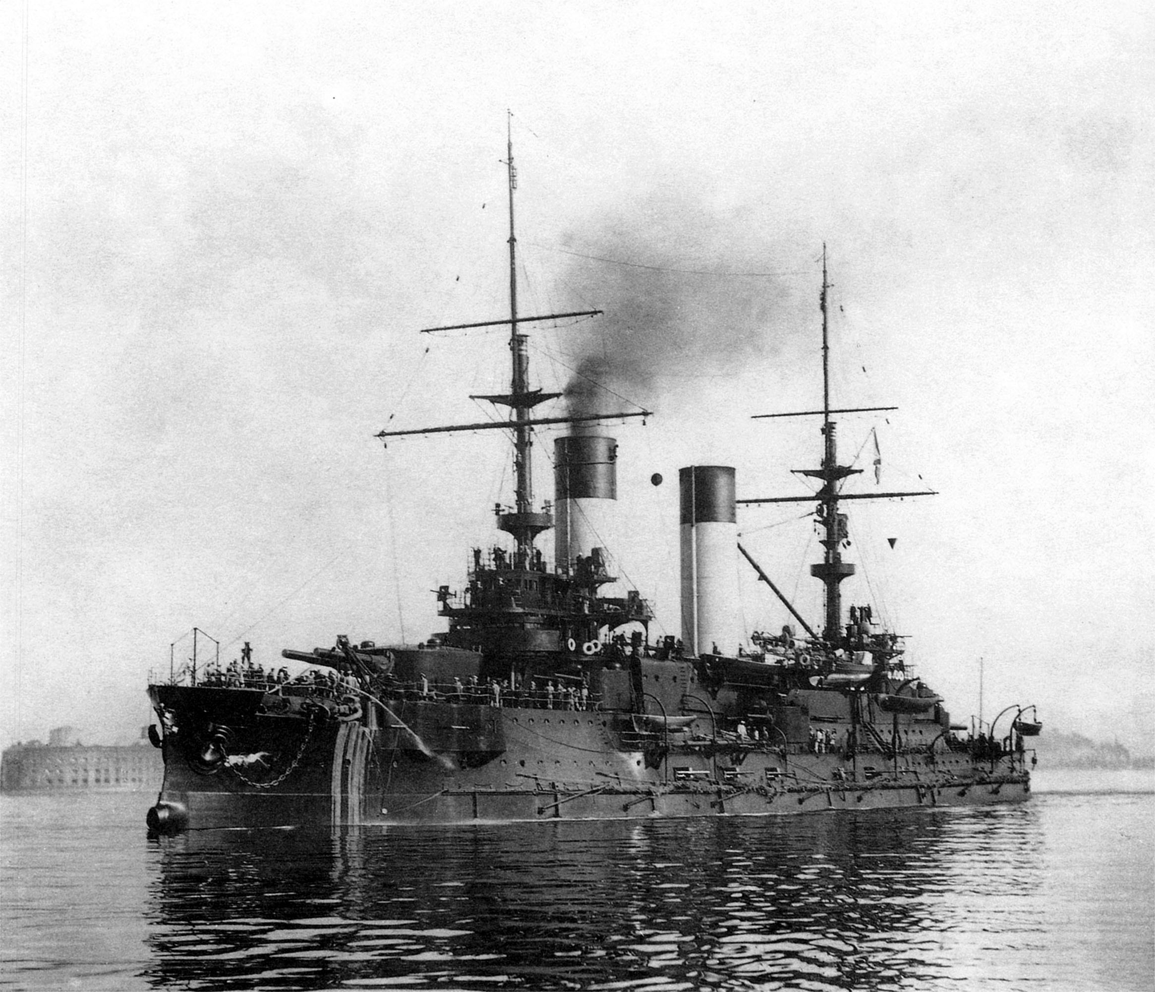 Imperial Russian battleship Oriol at Kronstadt, August 1904.